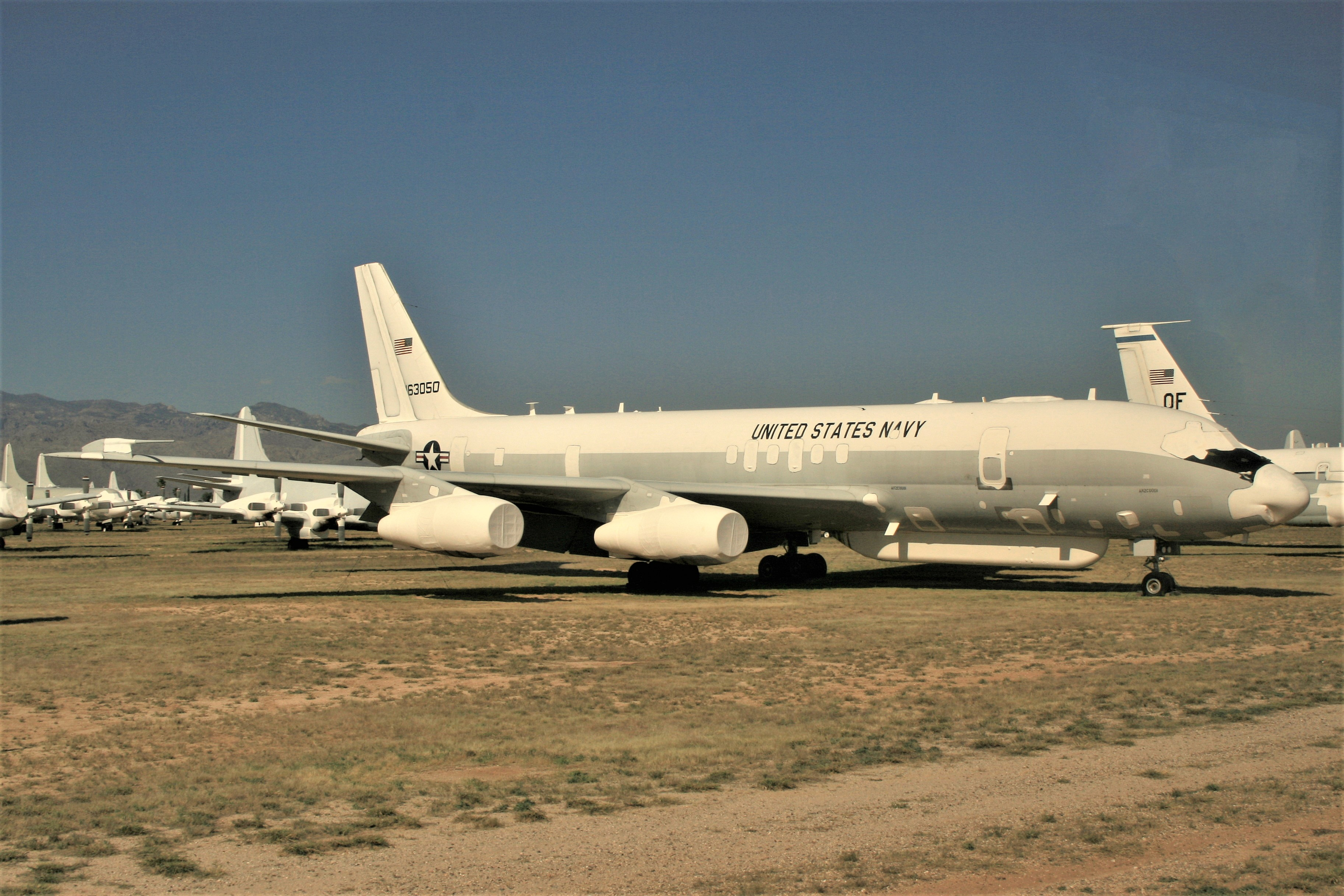 The sole DC-8 to serve in the US military; US Navy EC-24A aircraft in storage after its retirement. Digital photo of BuNo. 163050 taken by YSSYguy at Davis-Monthan AFB, Tucson, Arizona on 8 April 2008 and uploaded for use in the Douglas DC-8 article.